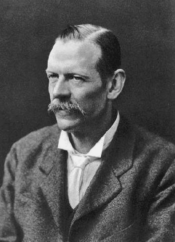 George Hartley Bryan (1864-1928), English mathematician and engineer